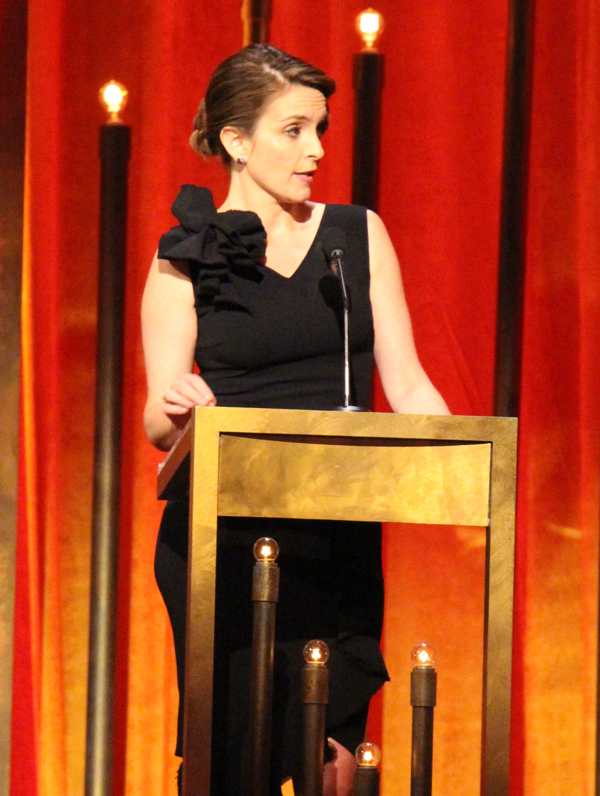 Tina Fey presenting a Peabody to Inside Amy Schumer.